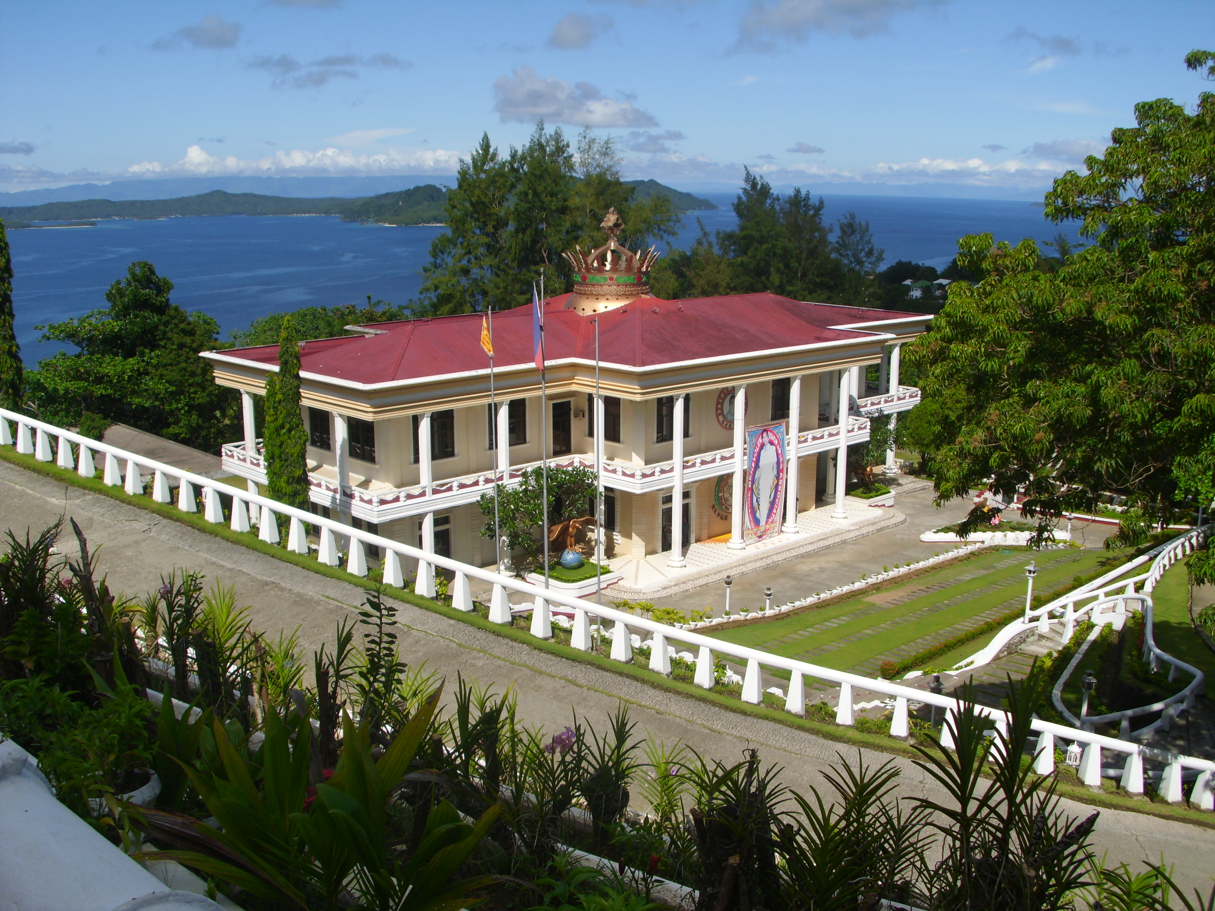 The Shrine built for Ruben Edera Ecleo Sr. the founder of the Philippine Benevolent Missionaries Association Inc. Situated at Aurelio, San Jose, Dinagat Islands.